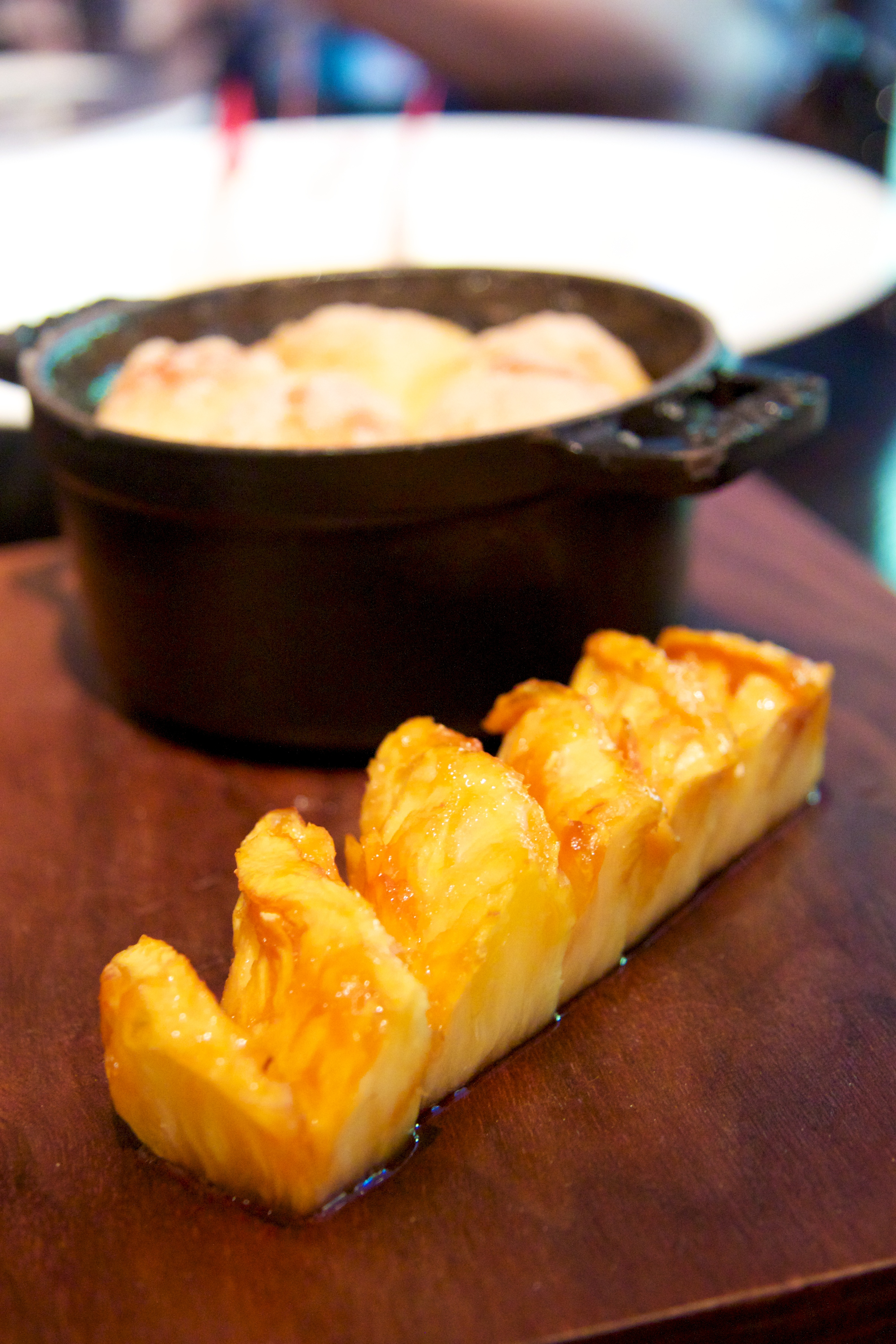 Dinner by Heston Blumenthal - Mandarin Oriental, Hyde Park, London